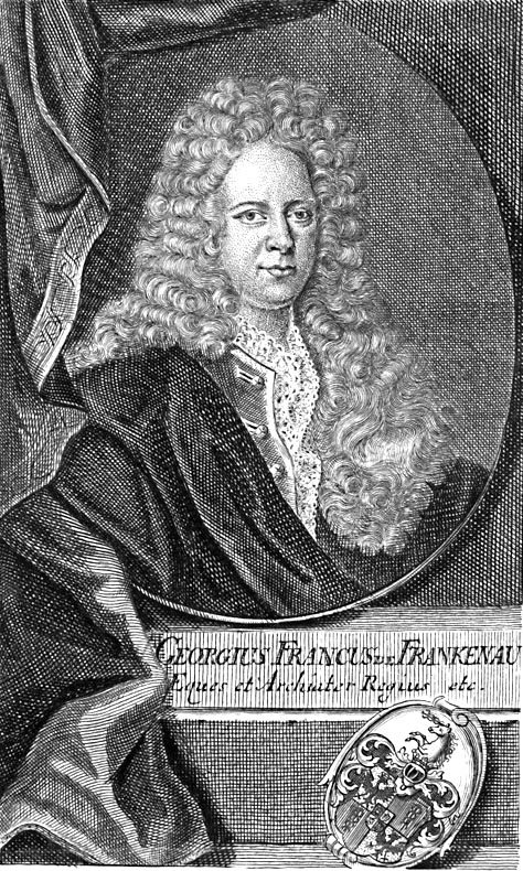 Georg Franck von Franckenau (1644-1704) Physician from Germany